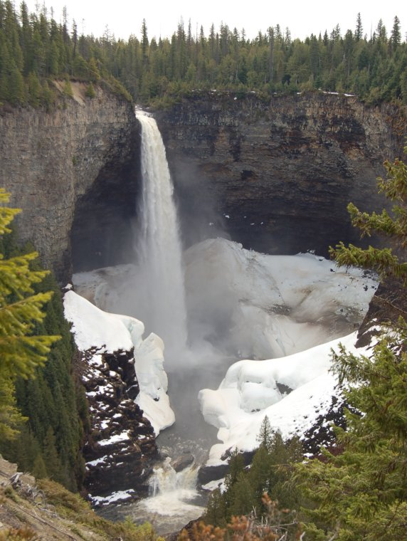 Helmcken Falls in Wells Gray Provincial Park in British Columbia, Canada.